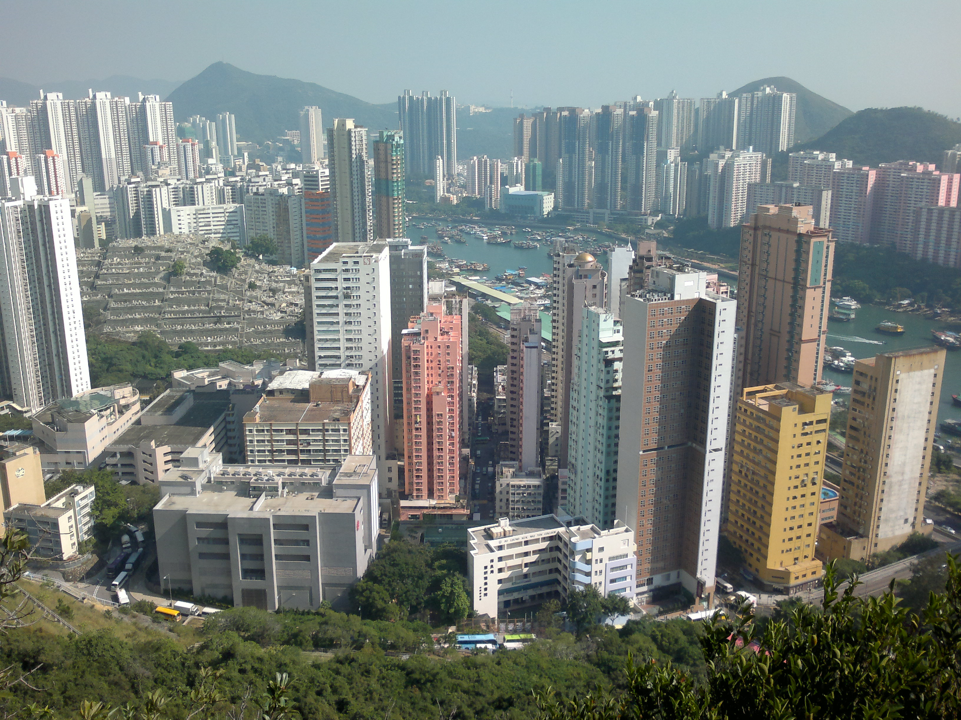 Tin Wan viewed from HK Trail